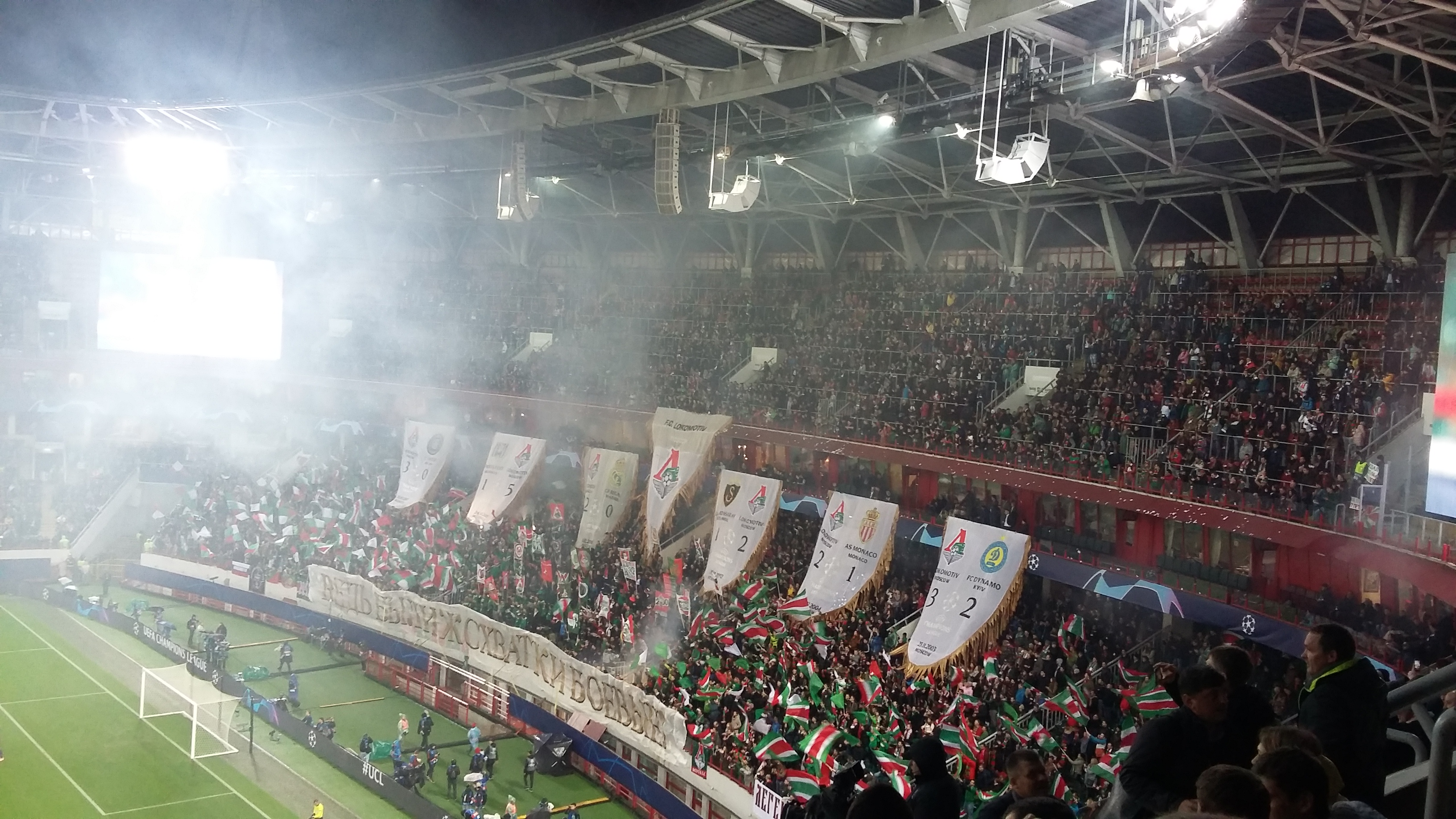 3 October 2018. UnitedSouth performance dedicated to the return of the club in the group stage of the Champions League